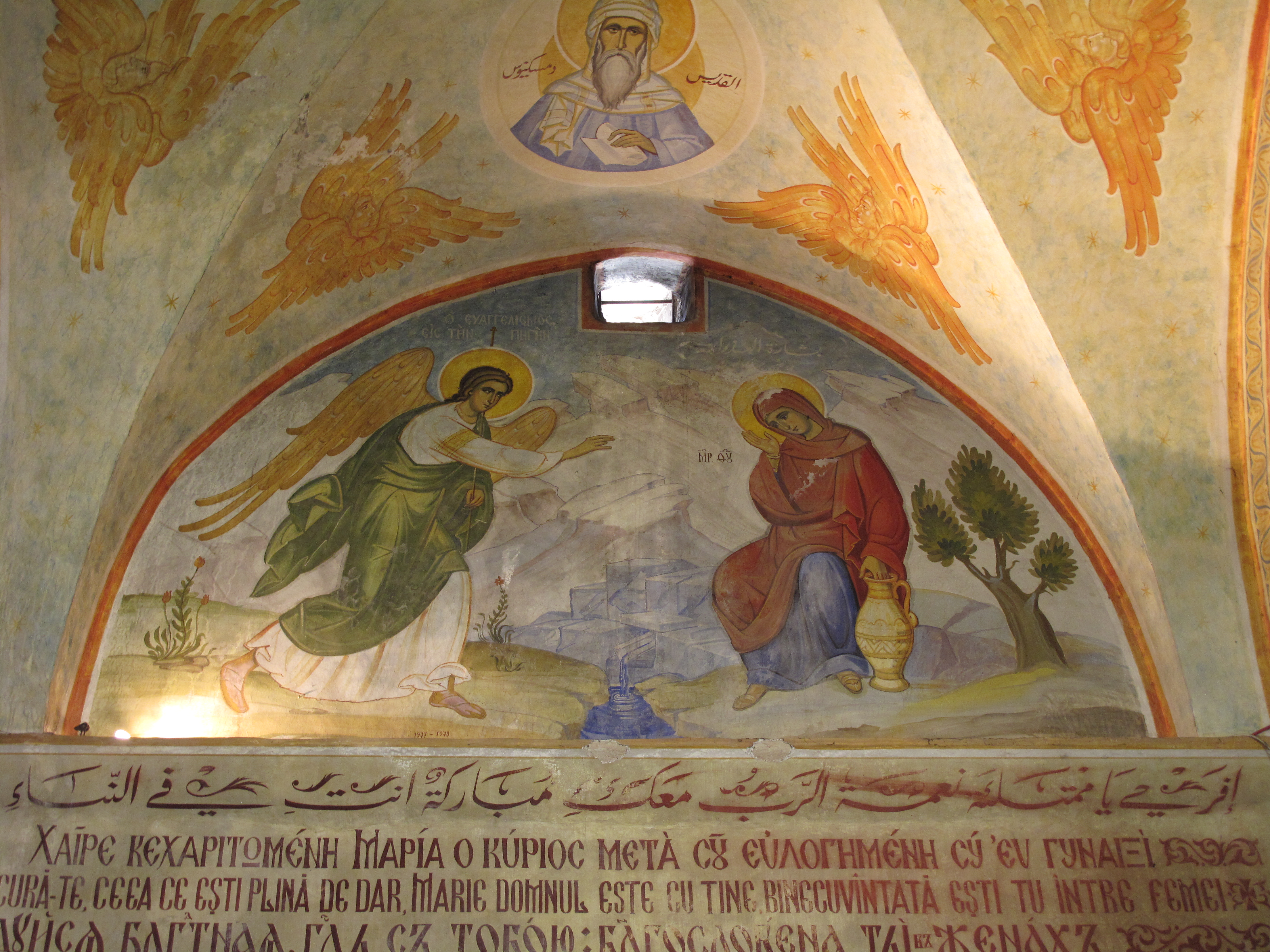 Nazareth, Israel.